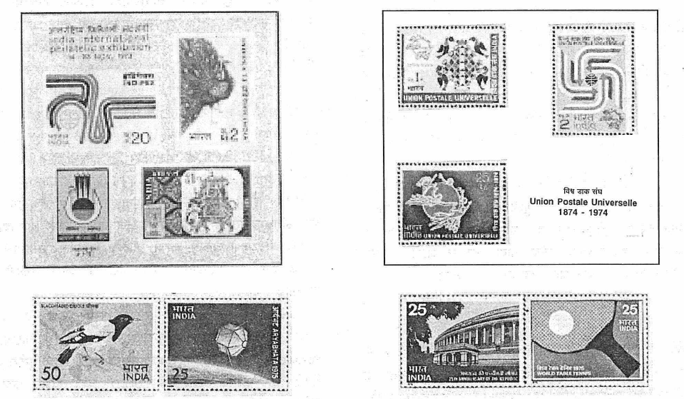 Indian Stamps-Konkani Vishwakosh